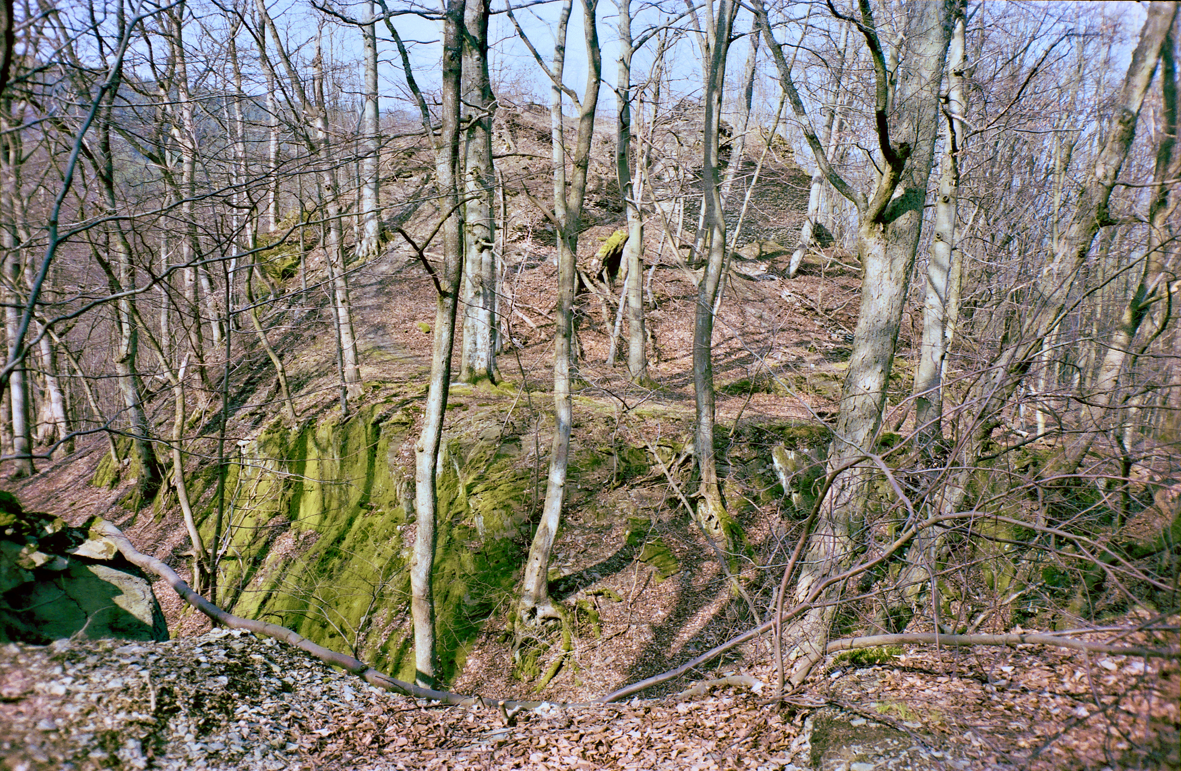 The remains of the Hattstein castle between Oberreifenberg and Schmitten (Taunus), Germany. Only the neck ditch in the foreground and some parts of the walls (like the one on the right side of the hill on the picture) can be seen today.